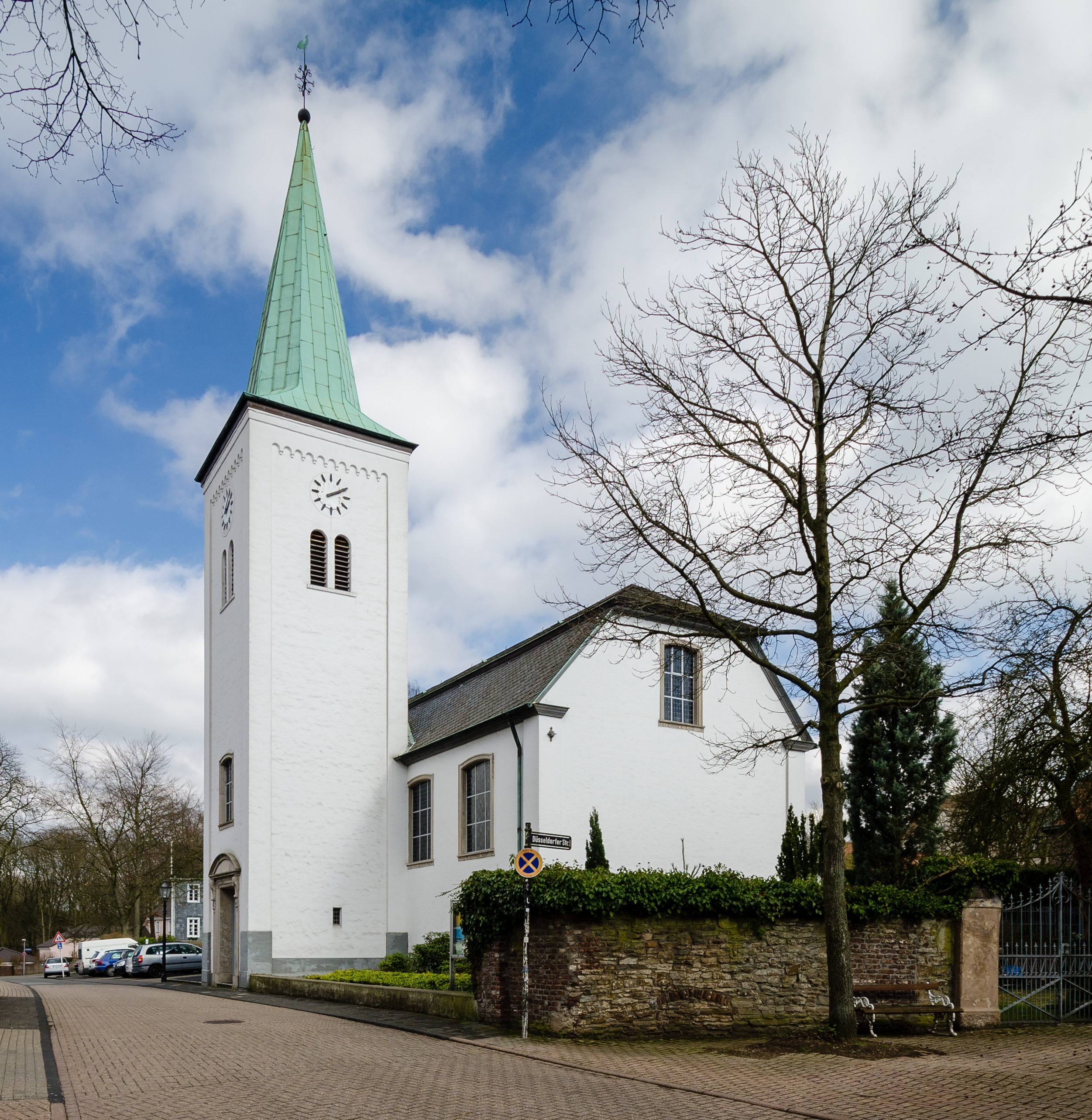 Protestant village church of Saarn, Mülheim an der Ruhr